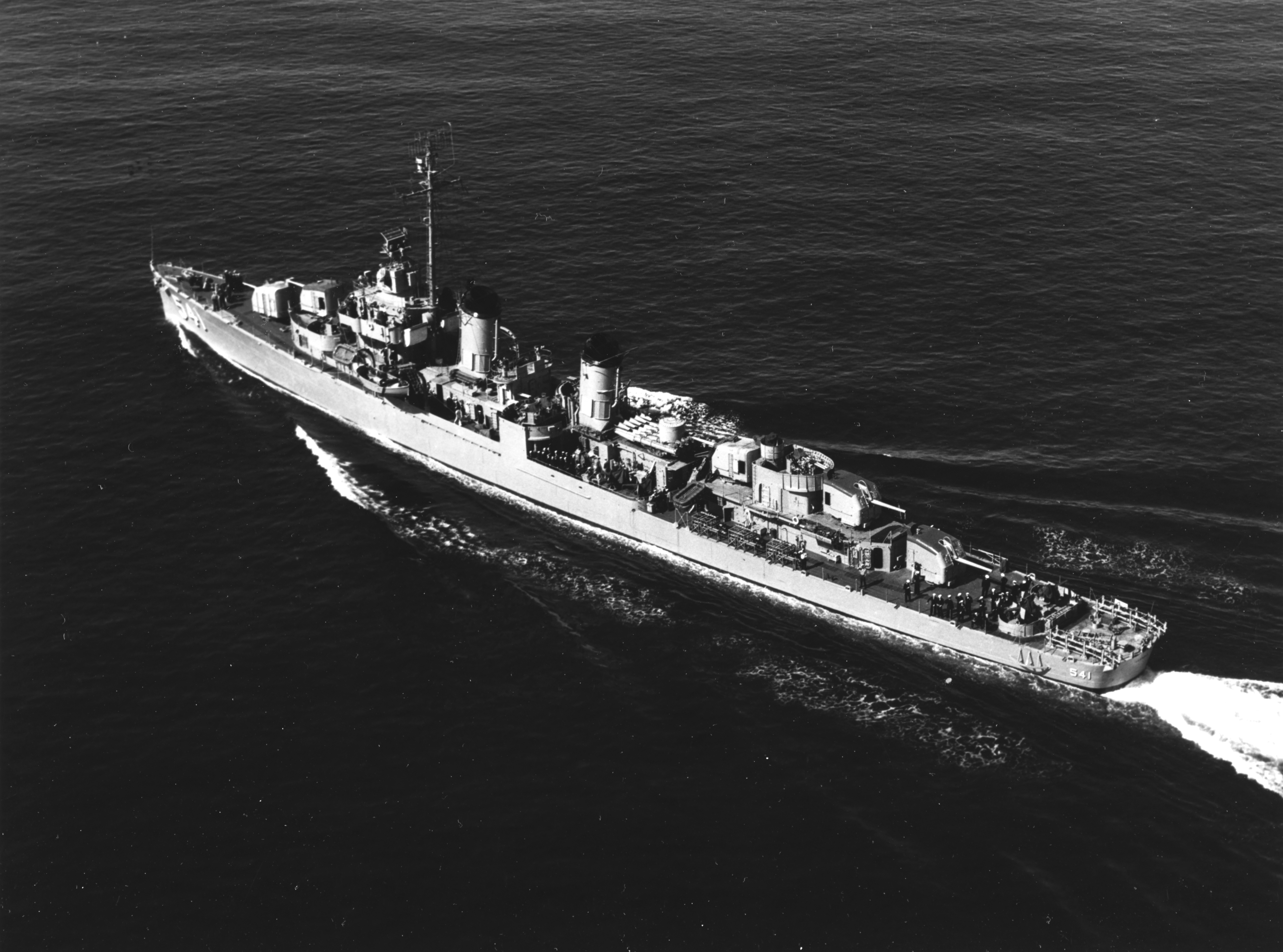 The U.S. Navy destroyer USS Yarnall (DD-541) underway in the Pacific Ocean, probably between 28 February 1951, when she was recommissioned for Korean War service, and early 1952, when she went into overhaul. She still has her polemast and some 20mm guns.